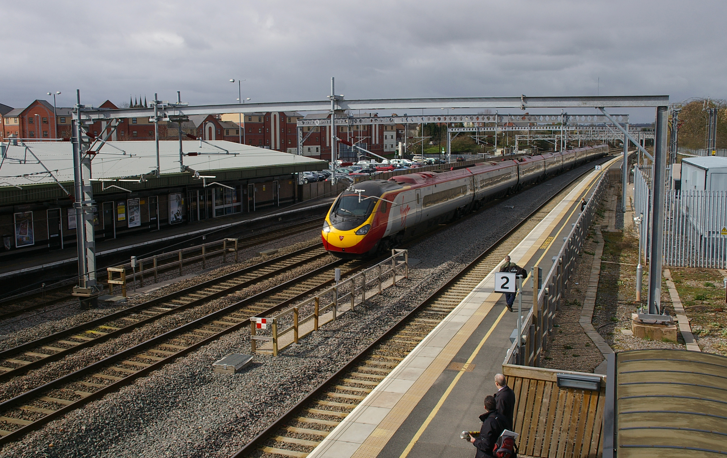 A Virgin Pendolino service speeds through Tamworth on the West Coast Main Line.